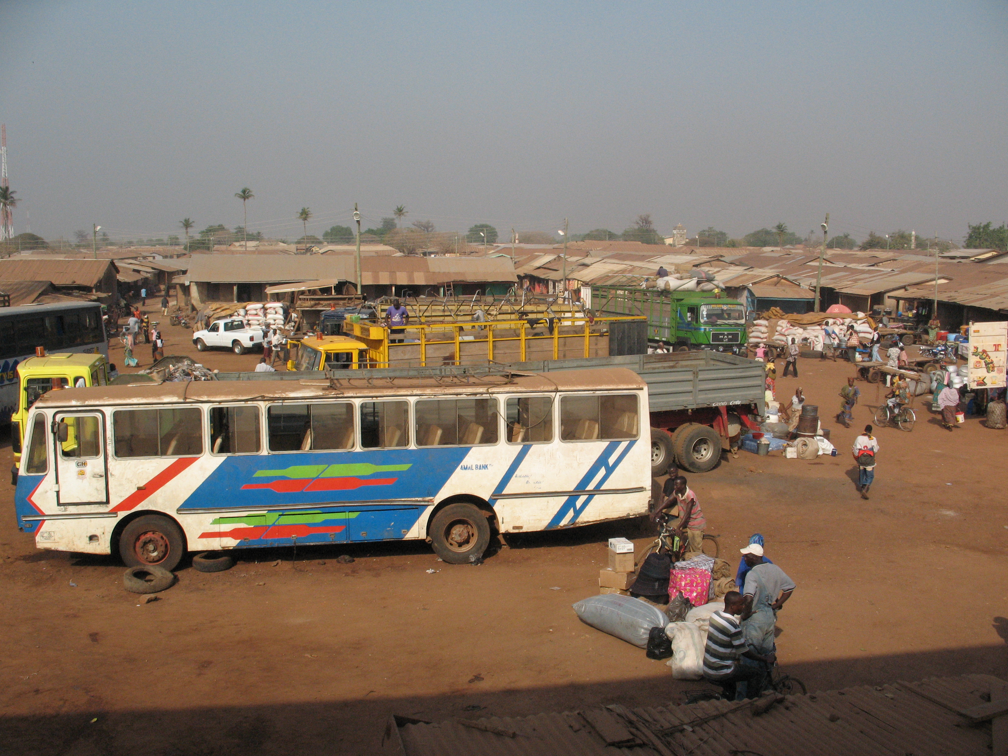 Market site of Yendi, Northern Region, Ghana